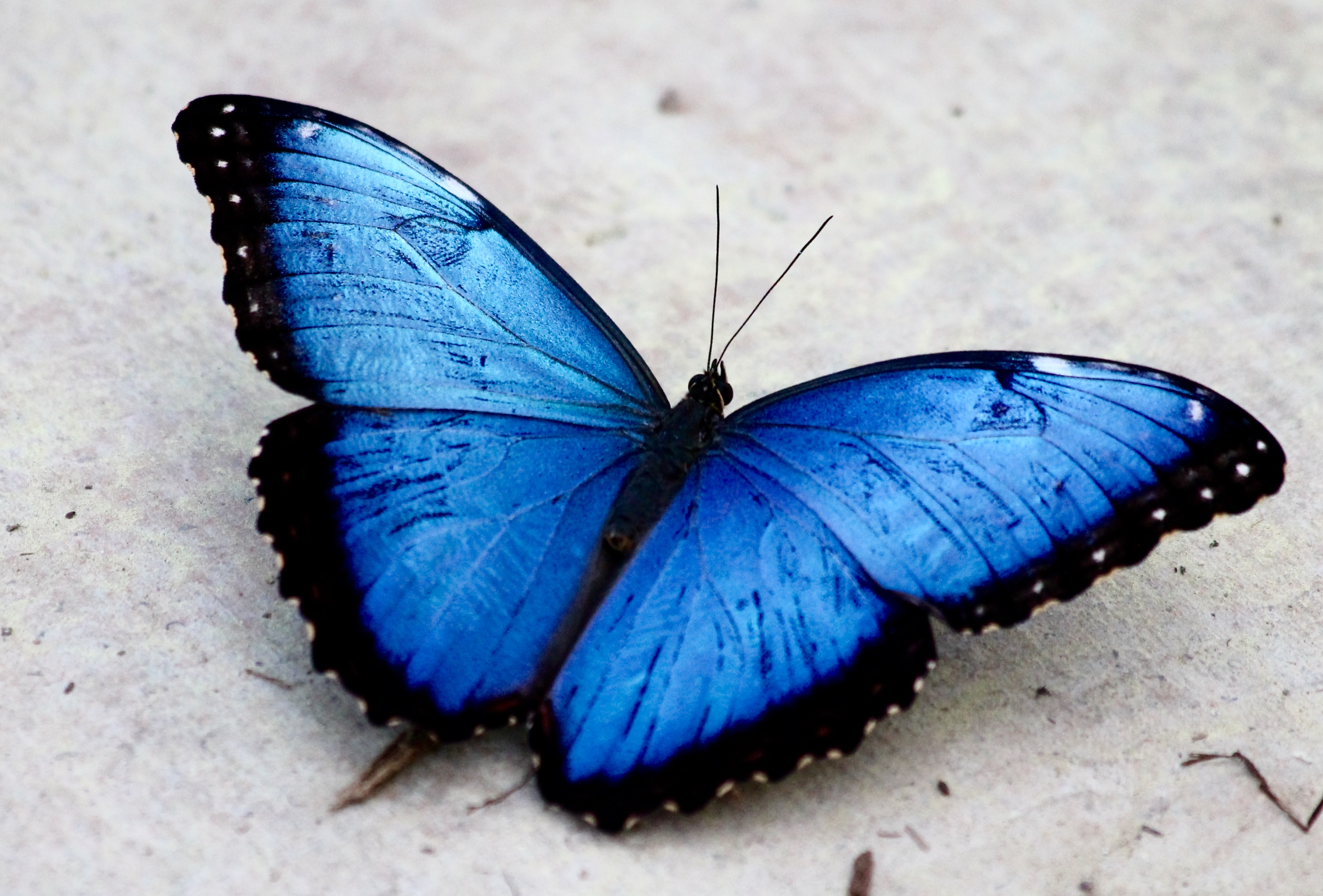 Blue Morpho Wings Open